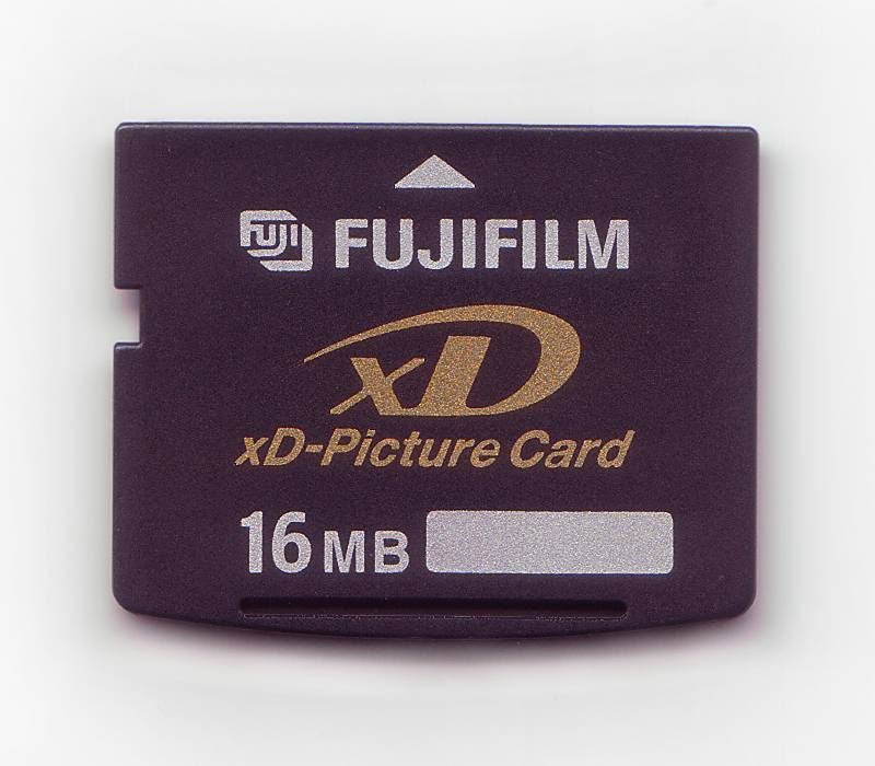 xD-Picture Card is a memory card for digital cameras. It was standardized by FUJIFILM (Fuji Photo Film Co., Ltd) and Olympus Corporation.